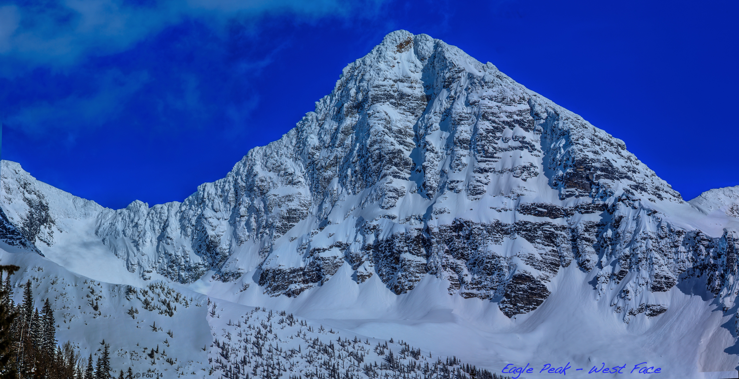 West face of Eagle Peak at Rogers Pass in the Selkirk Mountains...